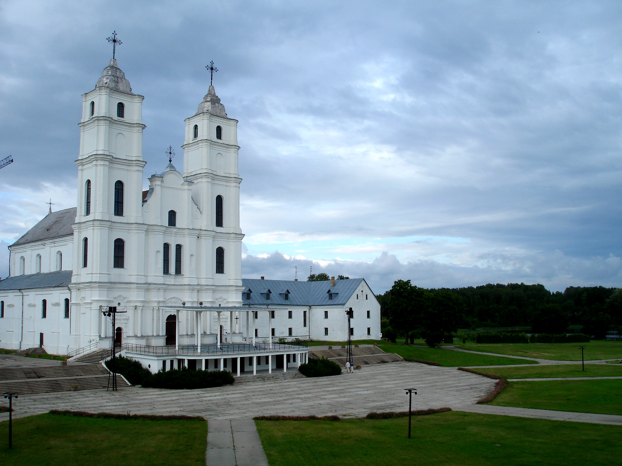 Aglona basilica. Latvia.